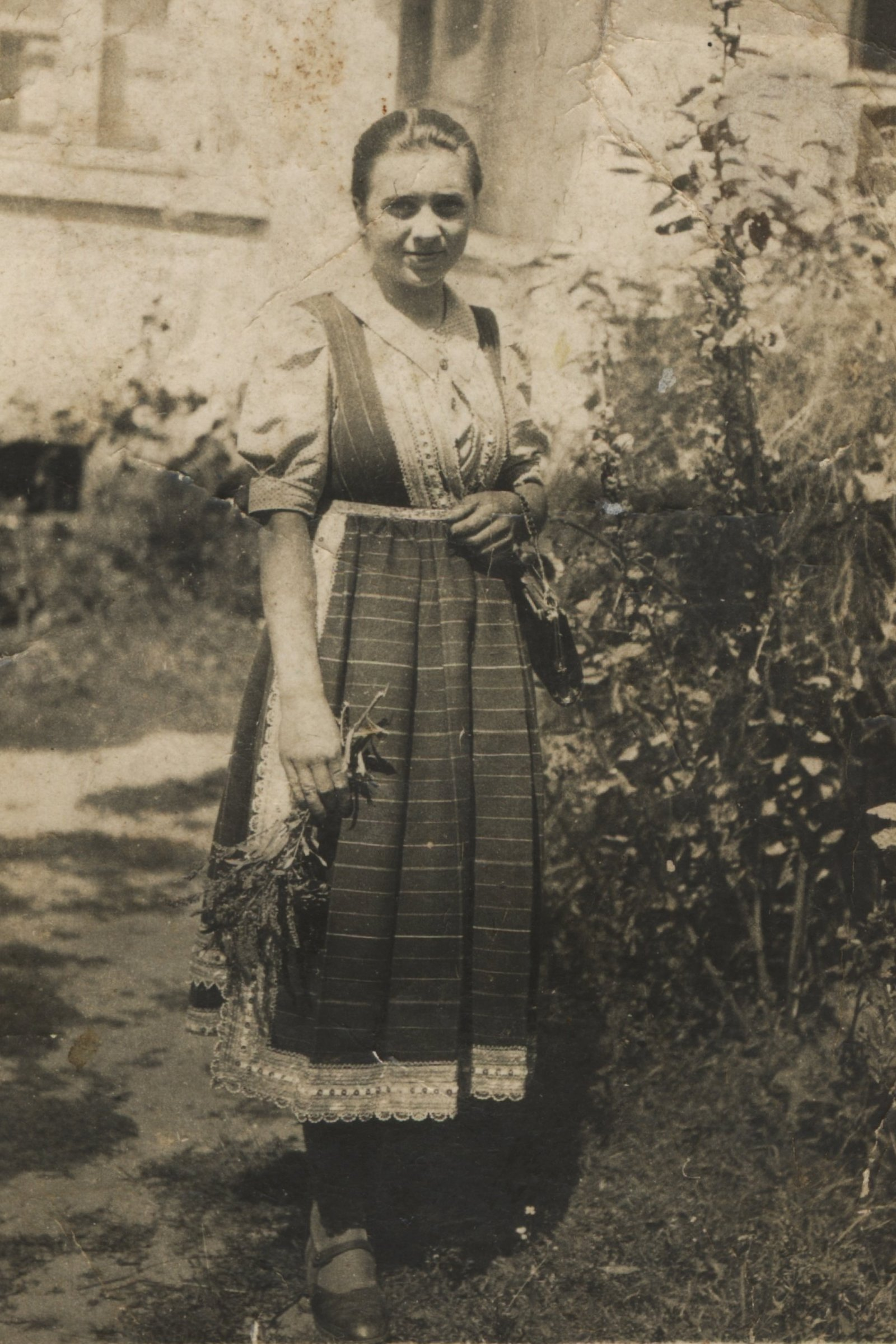 Woman in Kurpian dress (White Forest / White Kurpie / Southern group of Kurpie / Pułtusk group), Rząśnik, Poland. The blouse is not characteristic to Kuprie, though.